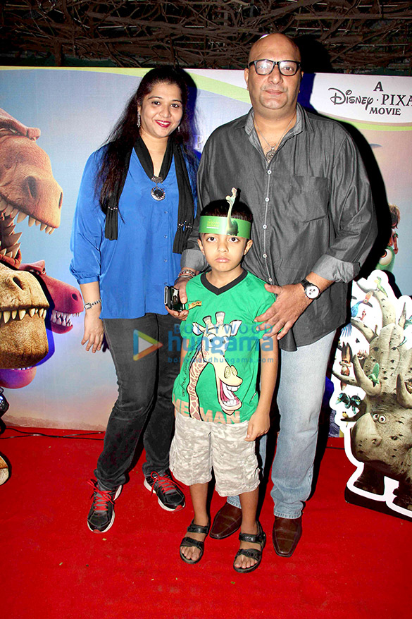 Behl having blast at the screening of Disney's The Good Dinosaur